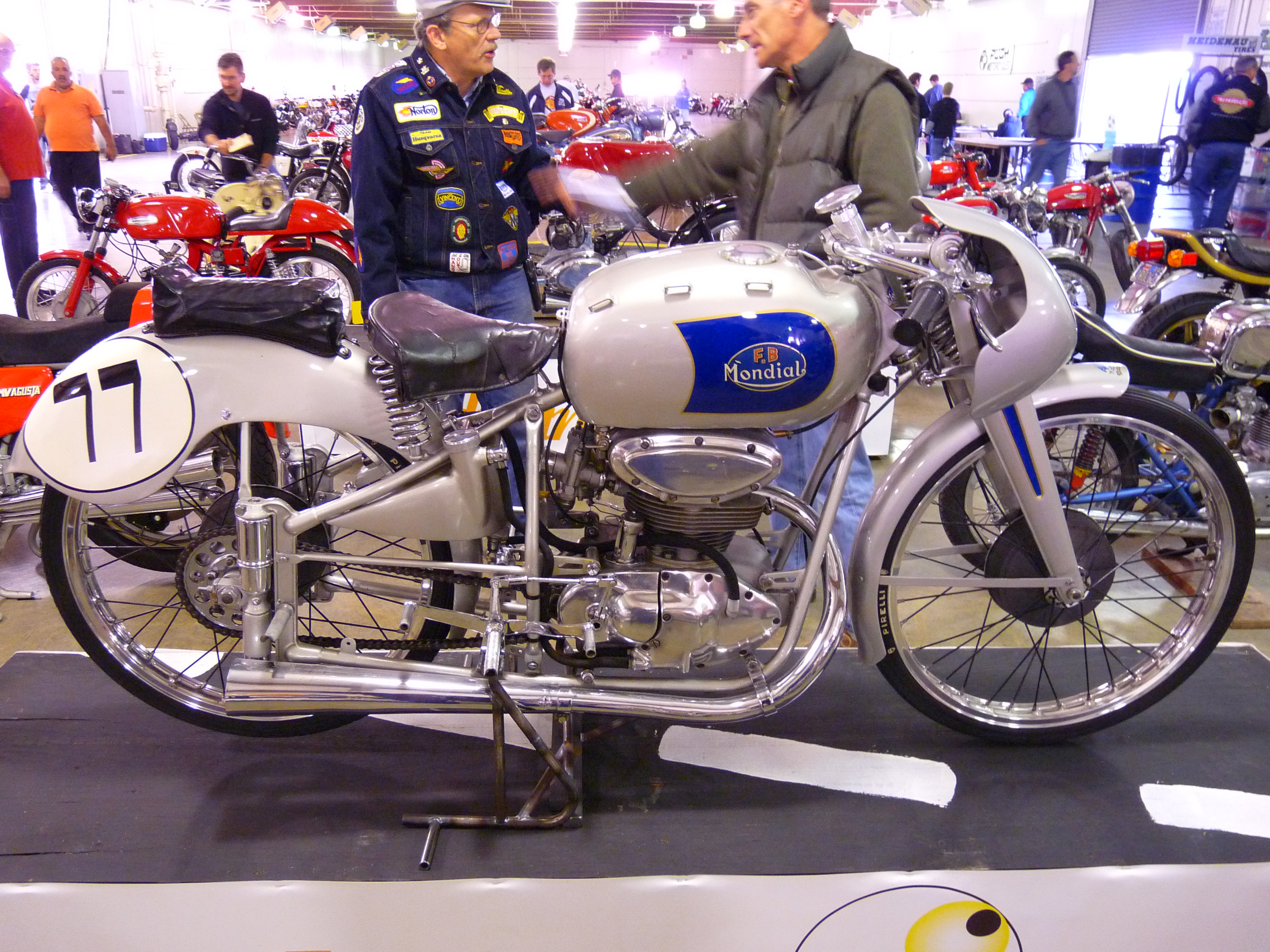 FB Mondial 125 Bialbero GP